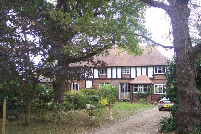 Bluebell Cottage, Radfall This cottage is on Broomfield Gate a small access road of Radfall Road. It is also a bridleway to Shrub Hill.